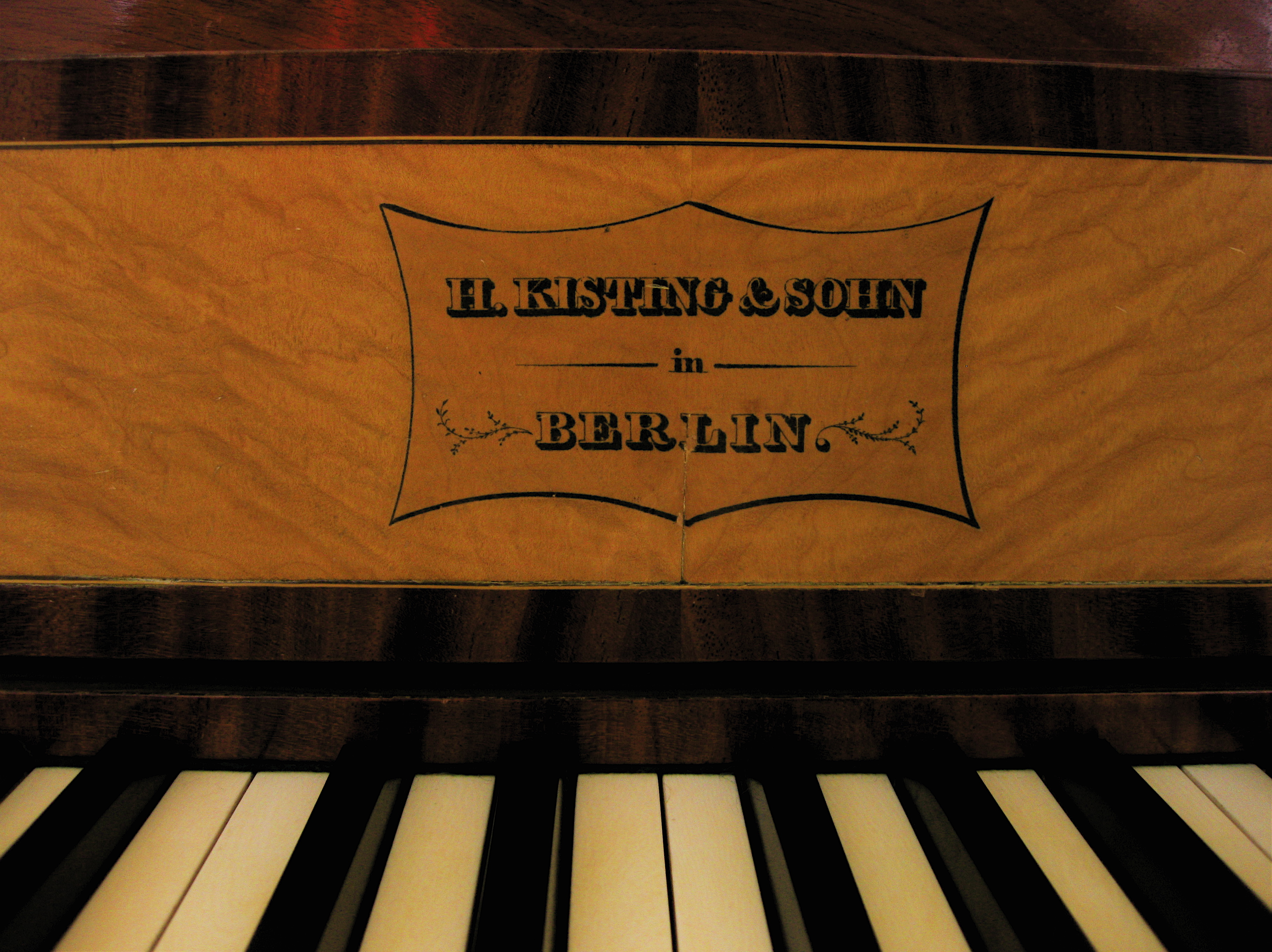 Nameplate of a Kisting Fortepiano, Opus 592